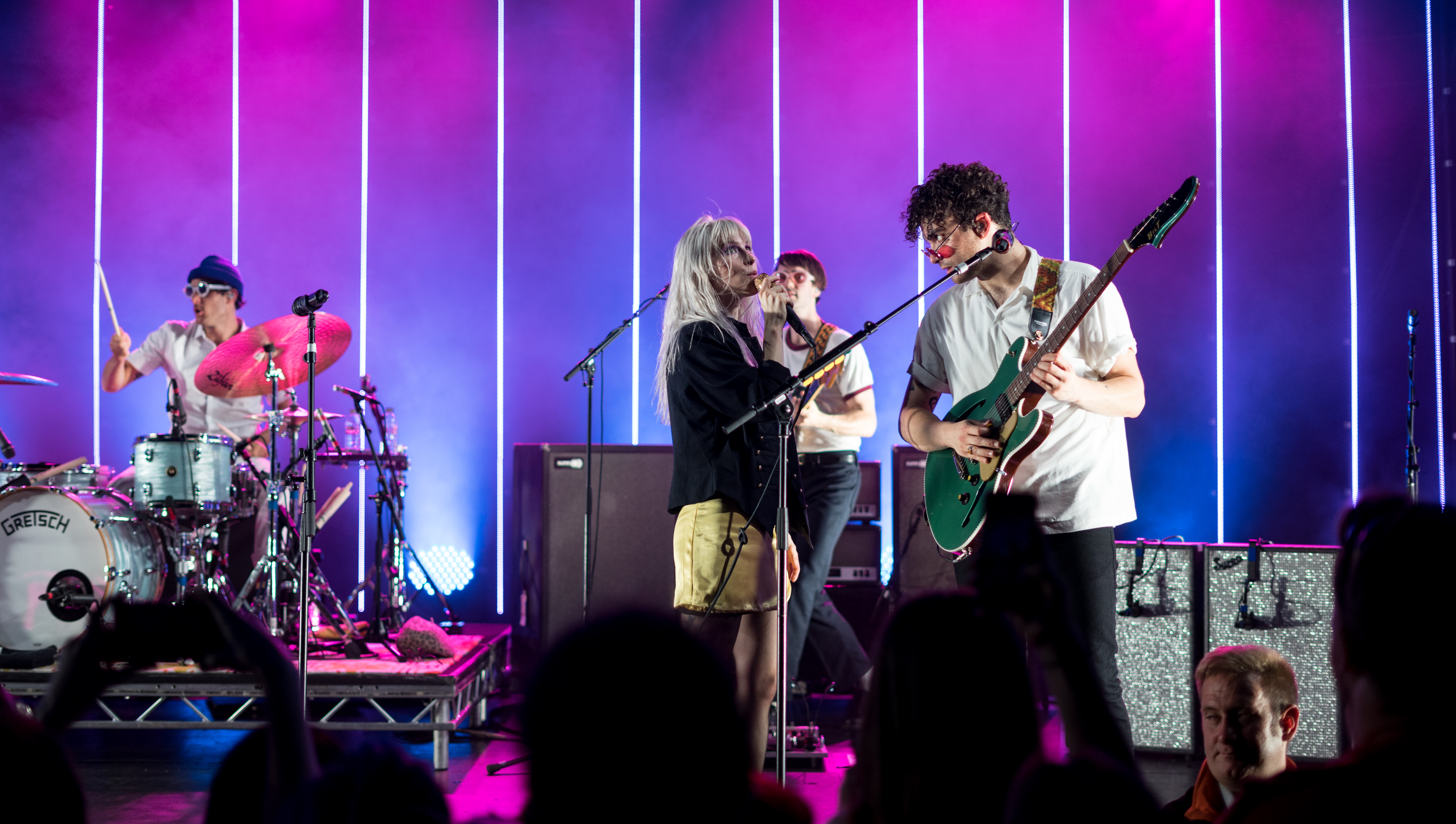 Paramore live concert at Royal Albert Hall, London, UK.